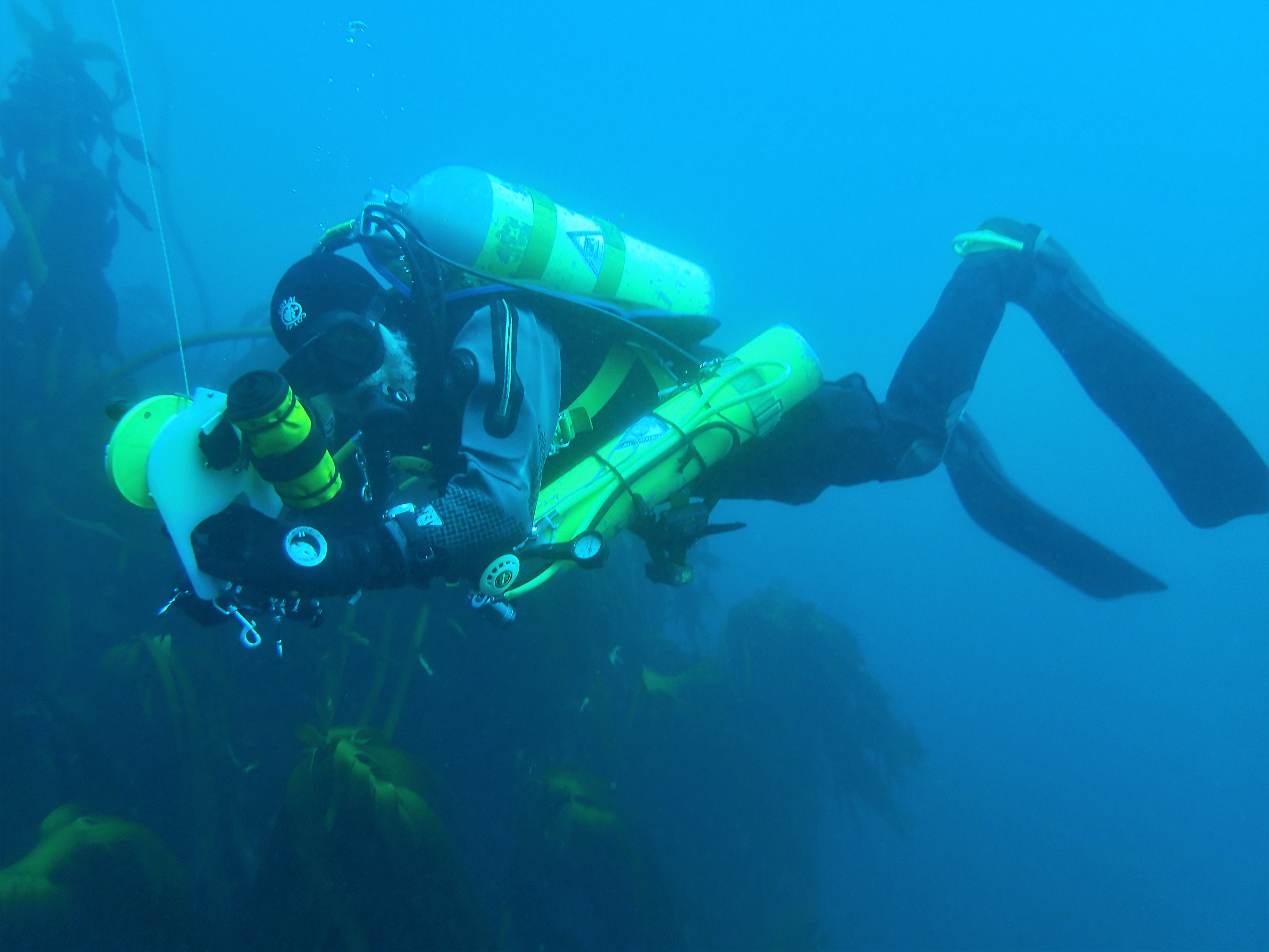 Peter Southwood 2